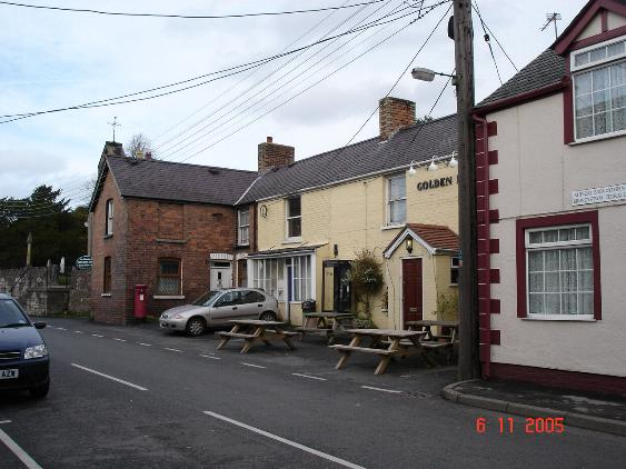 Llandyrnog. Village centre at Llandyrnog with the Golden Lion pub and empty shop to the centre of the photo